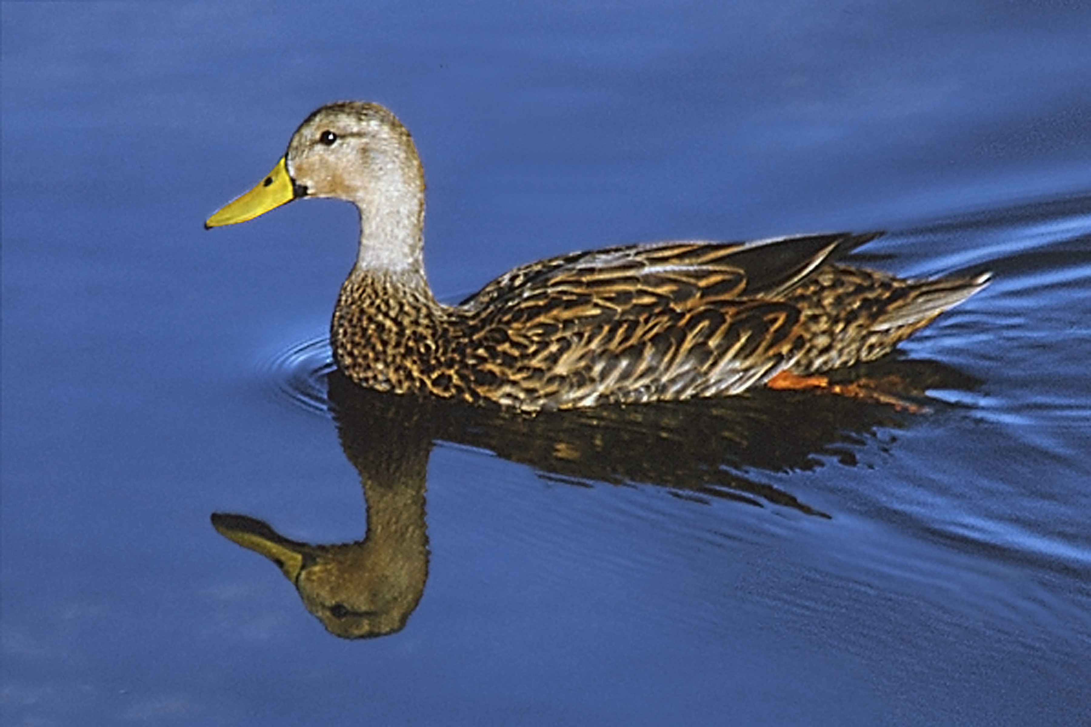 The Mottled Duck is only found in Florida.